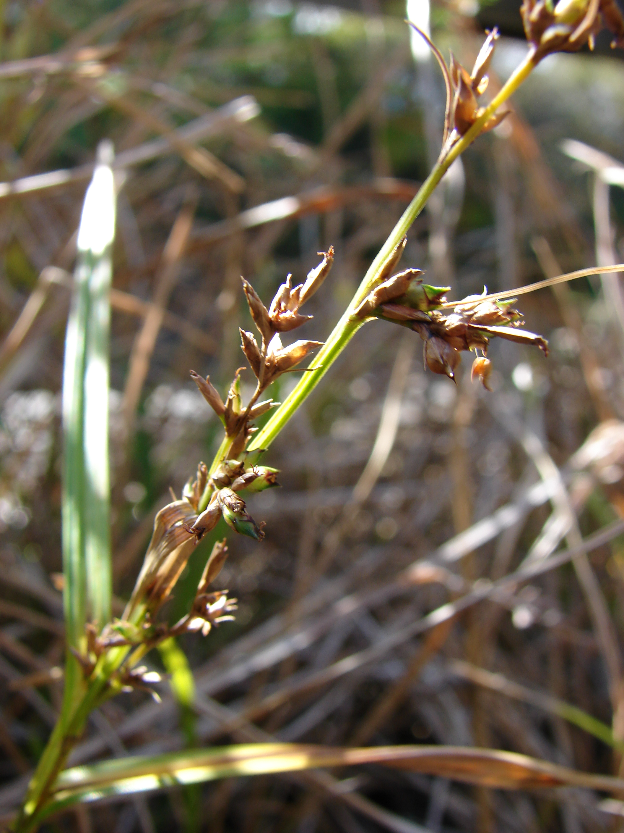 Scleria testacea (seedhead). Location: Maui, Hana Hwy